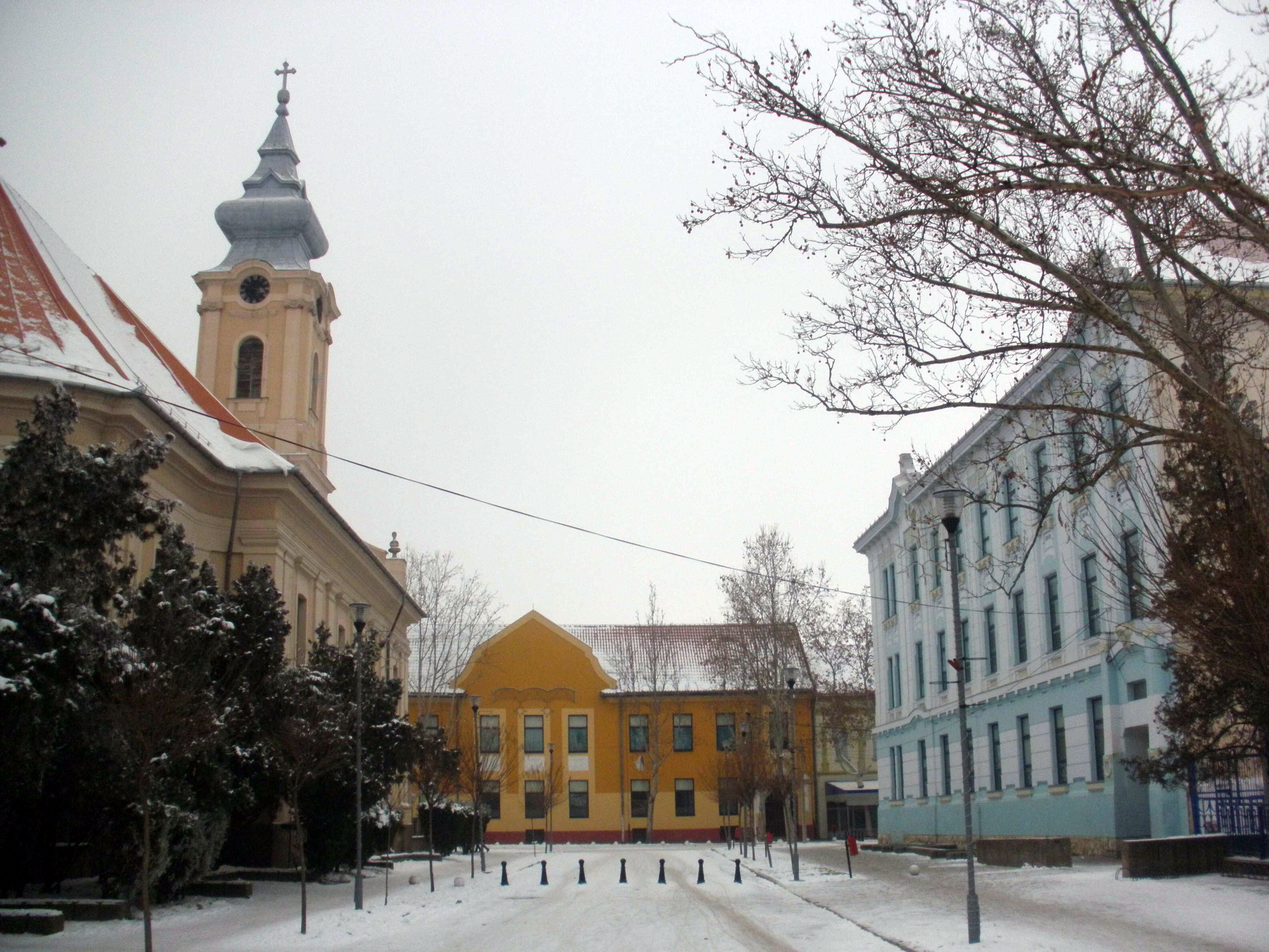 Church and Elementary school in old part of Novi Bečej, Banat, Vojvodina, Serbia